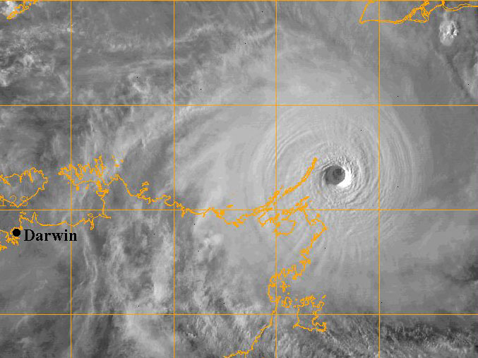 Cyclone Monica, 23 April 2006.